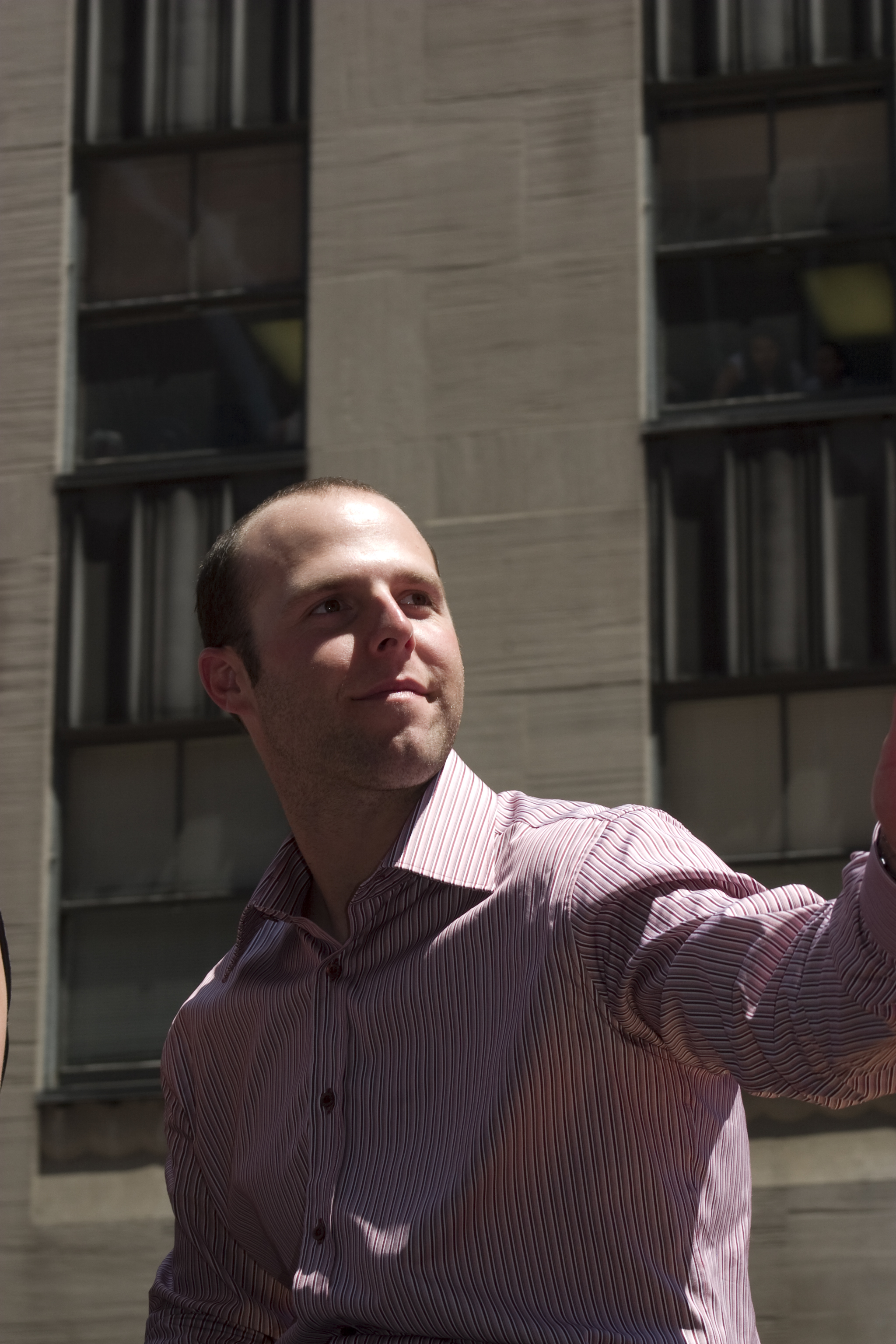 Baseball player Dustin Pedroia. © Rubenstein, photographer Martyna Borkowski